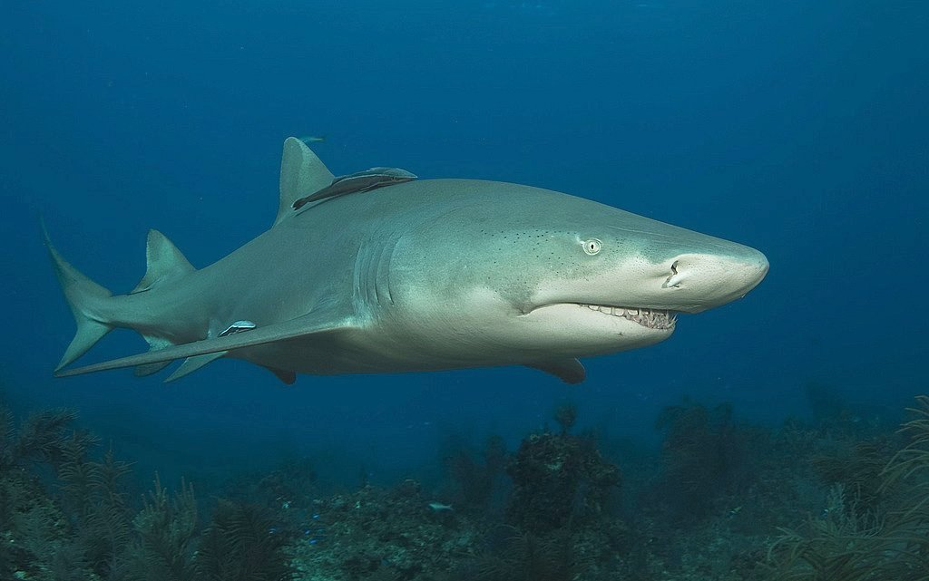 lemon shark bahamas